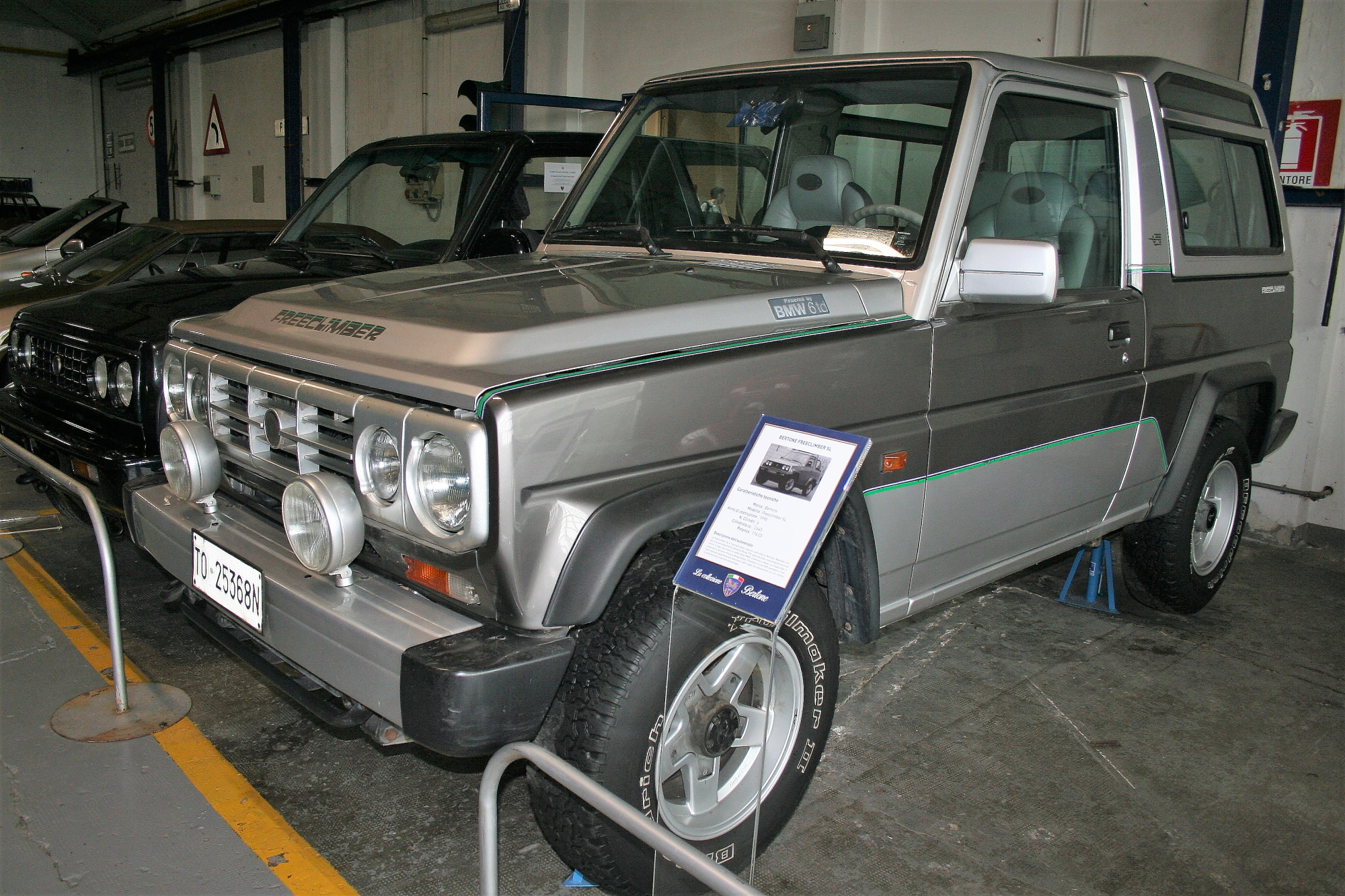 1990 Bertone Freeclimber. At its left, a Freeclimber II (black grille). Both are Daihatsus modivied by Bertone. At the Bertone collection of the Automotoclub Storico Italiano (ASI), located in Volandia outside of Milan (by the Malpensa airport and museum areas